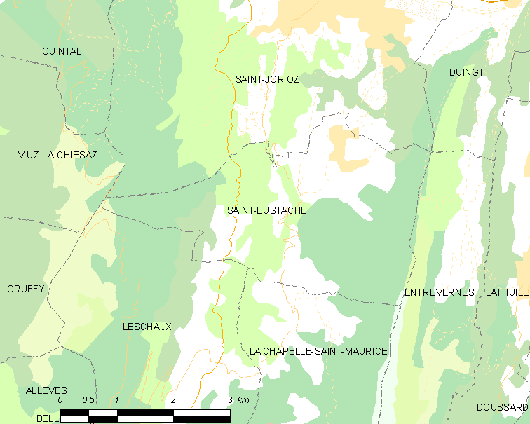 Map of French municipality Saint-Eustache